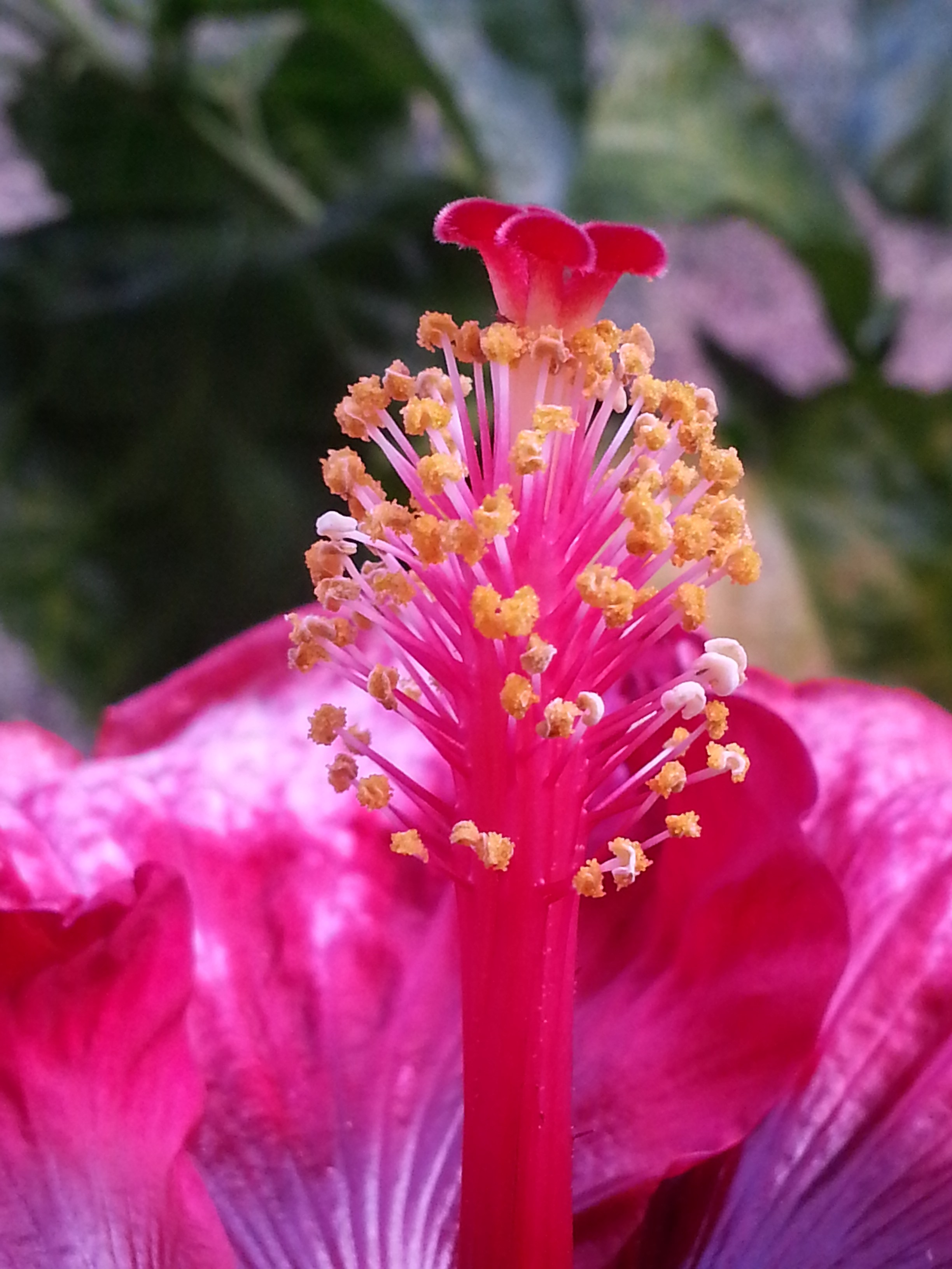 Pollen in the centre of a hibiscus flower.